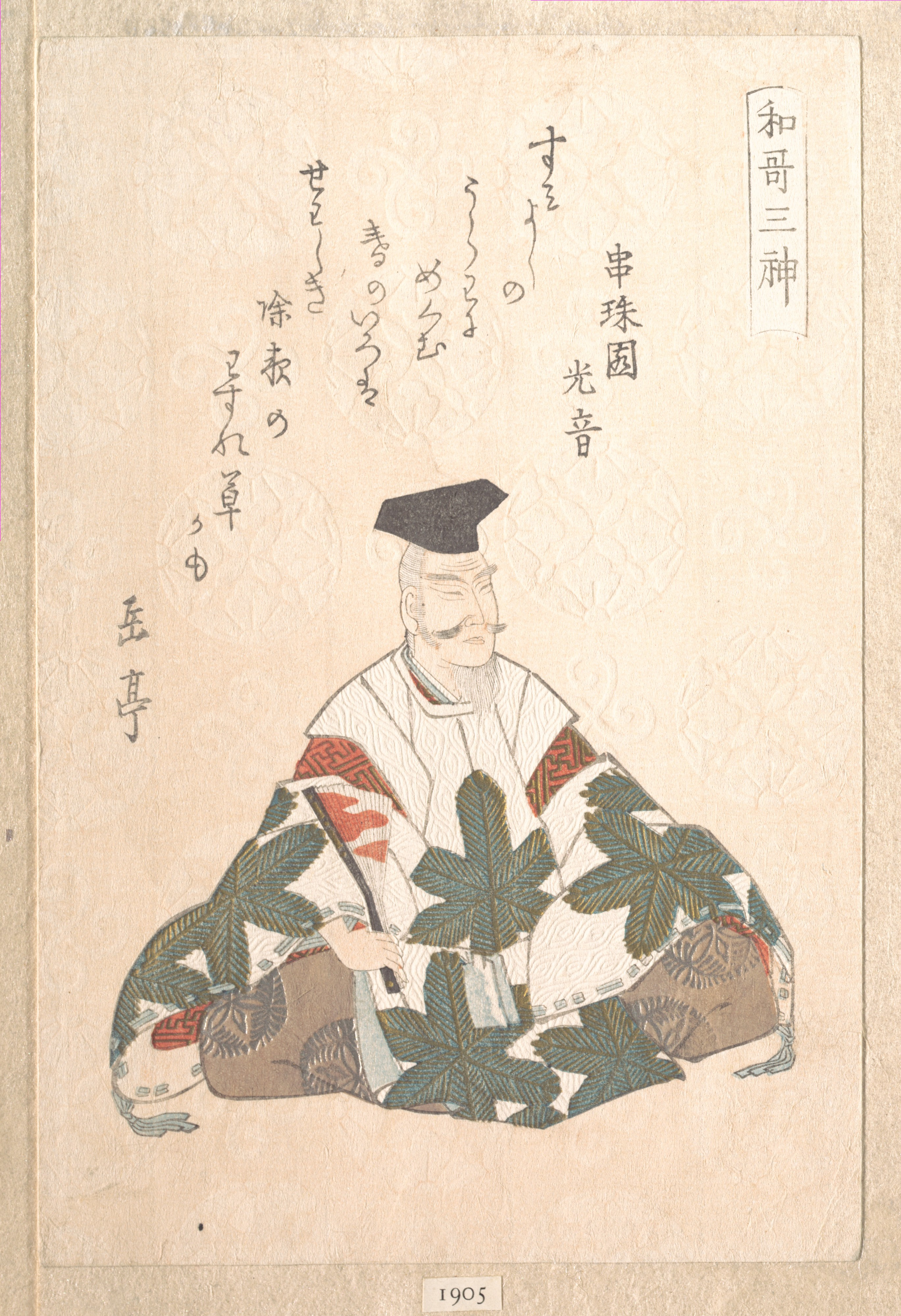 Yamabe no Akahito (active 724–736), One of the Three Gods of Poetry from the Spring Rain Collection (Harusame shū), vol. 1